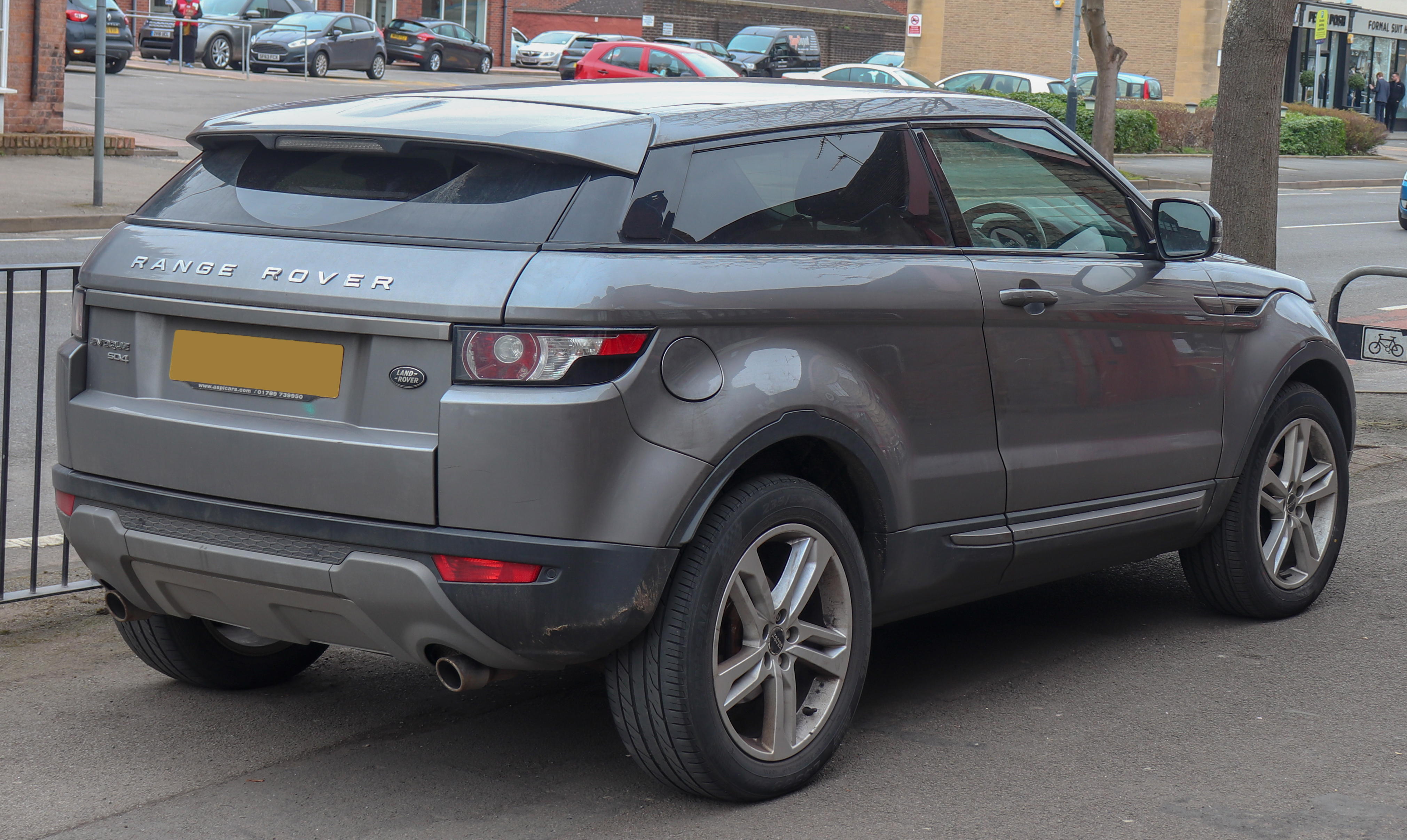 2011 Land Rover Range Rover Evoque Pure SD4 2.2 Rear Taken in Warwick